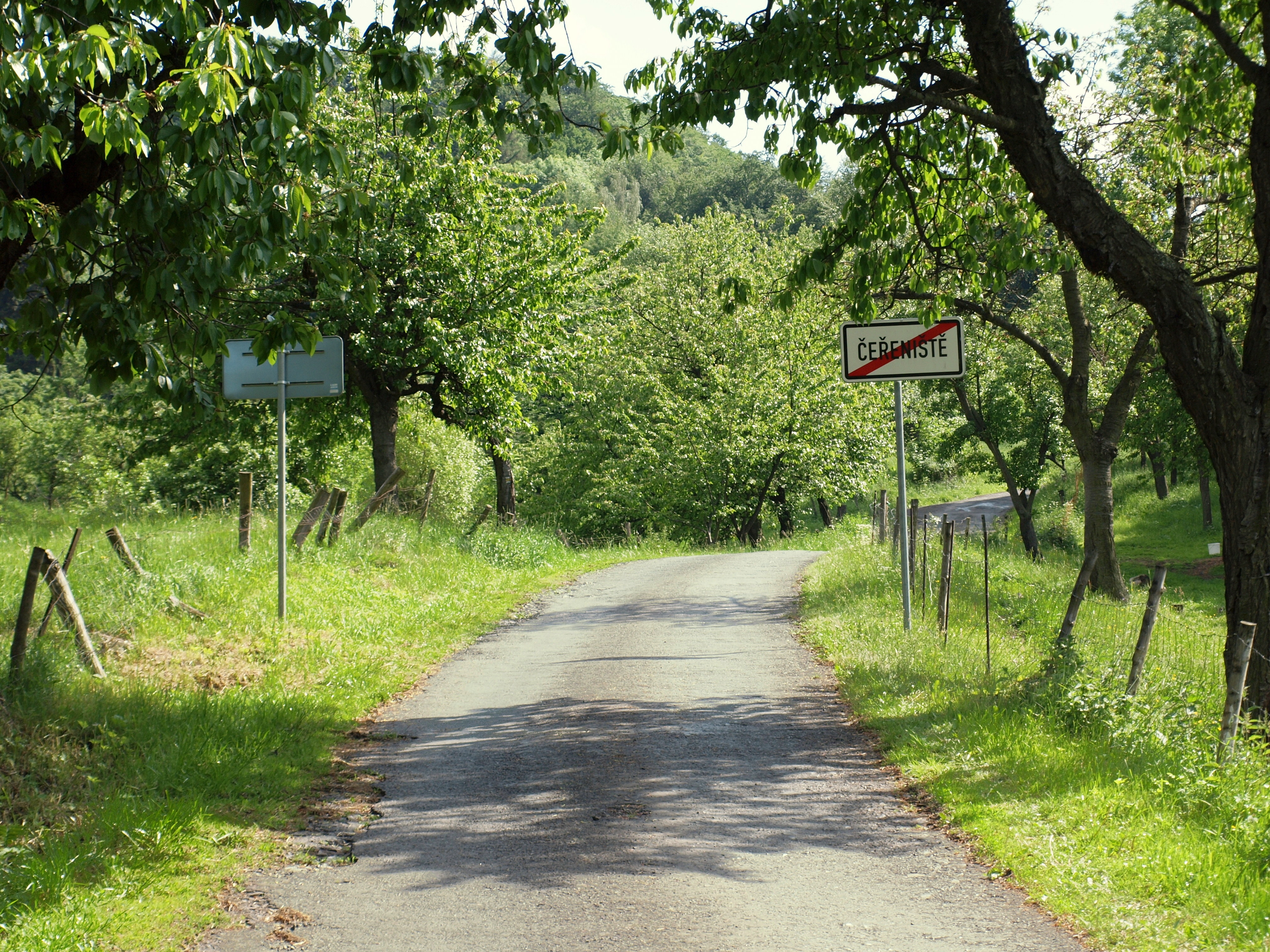 Road from Čeřeniště